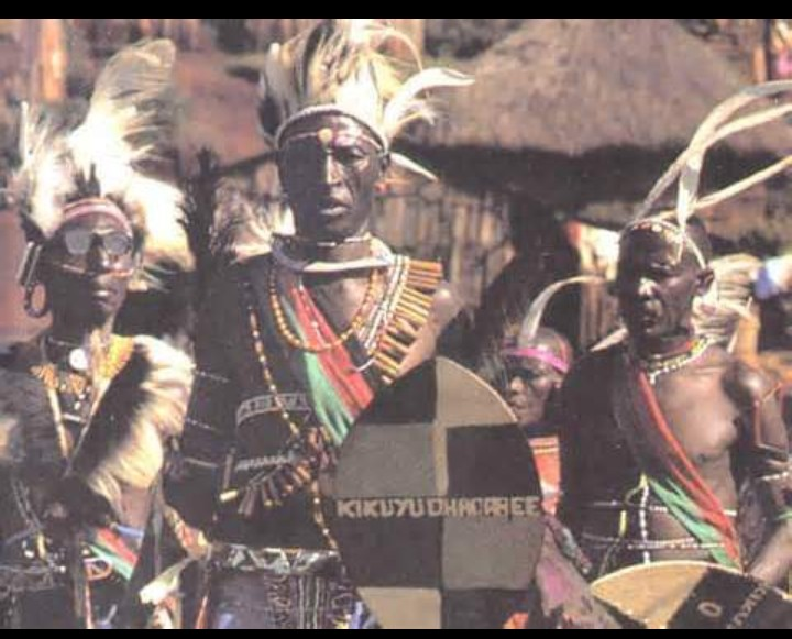 This photo has been taken in the country: Kenya